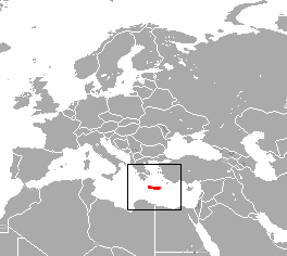 Cretan Shrew (Crocidura zimmermanni) range